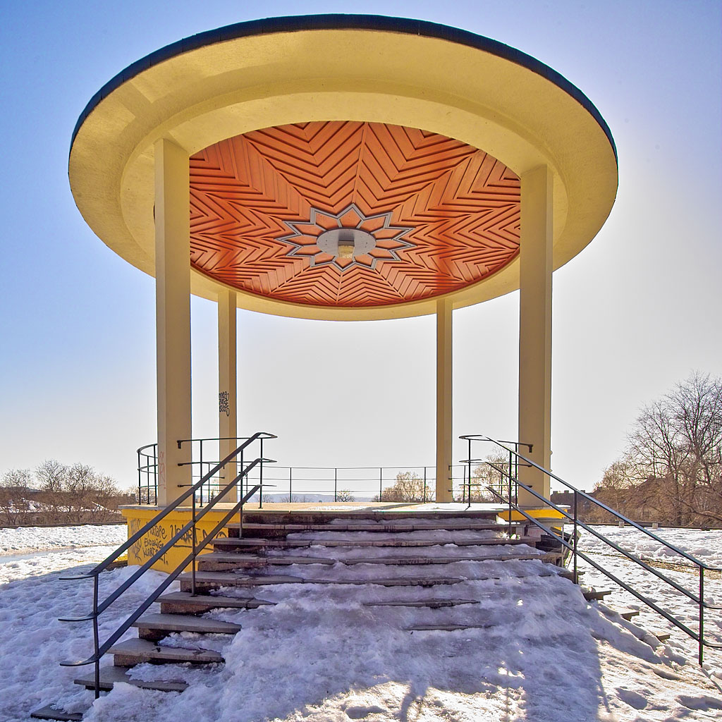 This beautiful art-deco(?) bandstand is located in Torshovparken, just behind my flat. From the top you get a great view over downtown Oslo.Bandstand